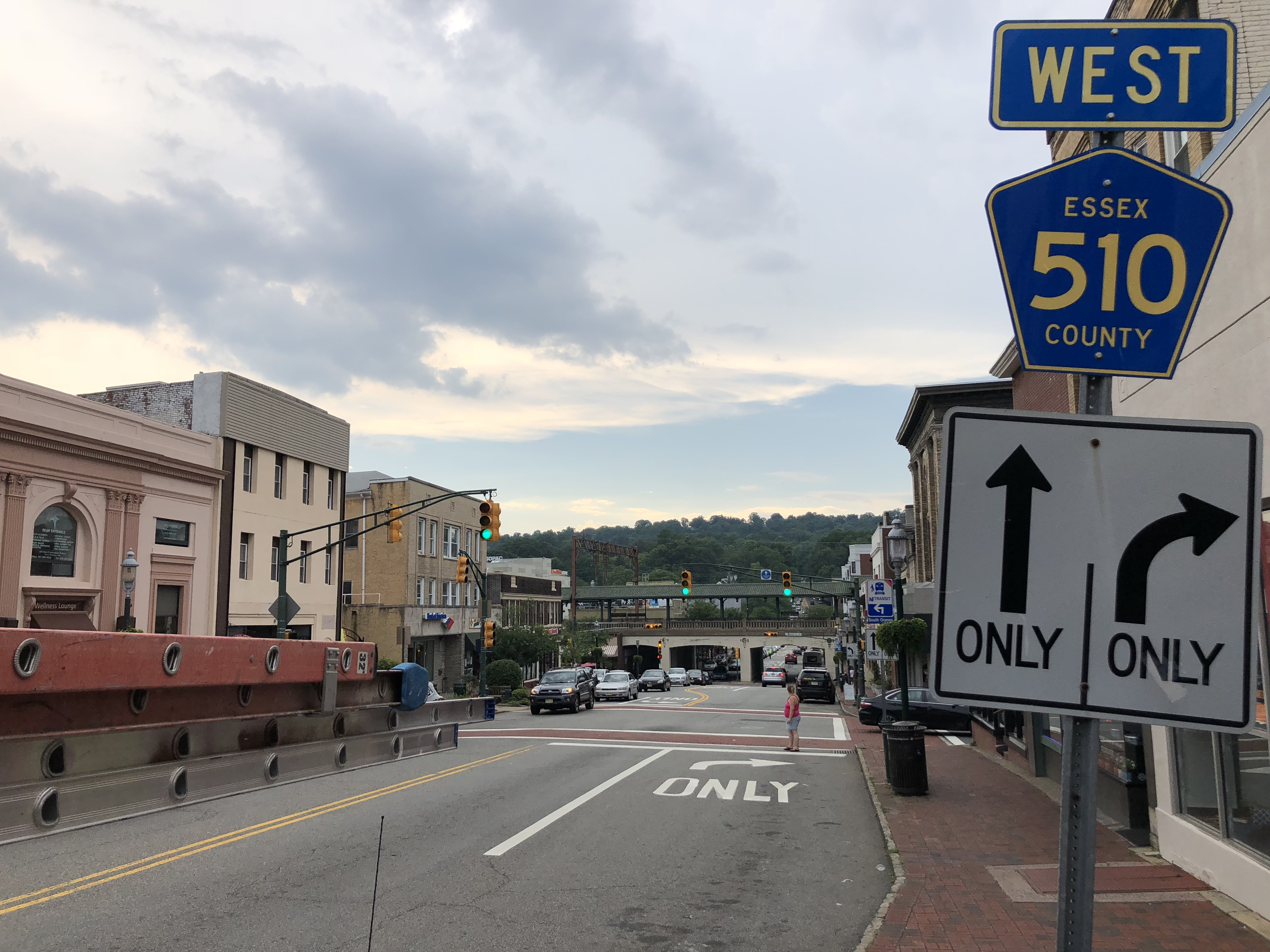 View west along Essex County Route 510 (South Orange Avenue) between Essex County Route 638 Spur (Village Plaza) and Vose Avenue in South Orange Township, Essex County, New Jersey